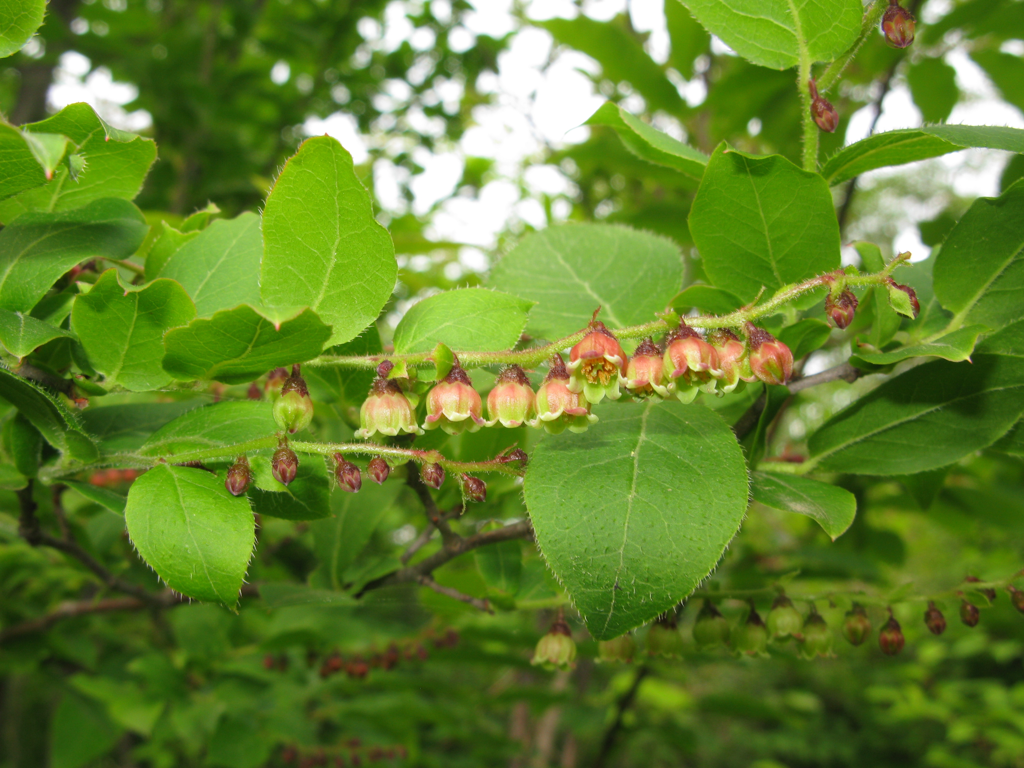 Vaccinium oldhamii, Aizu area, Fukushima pref., Japan